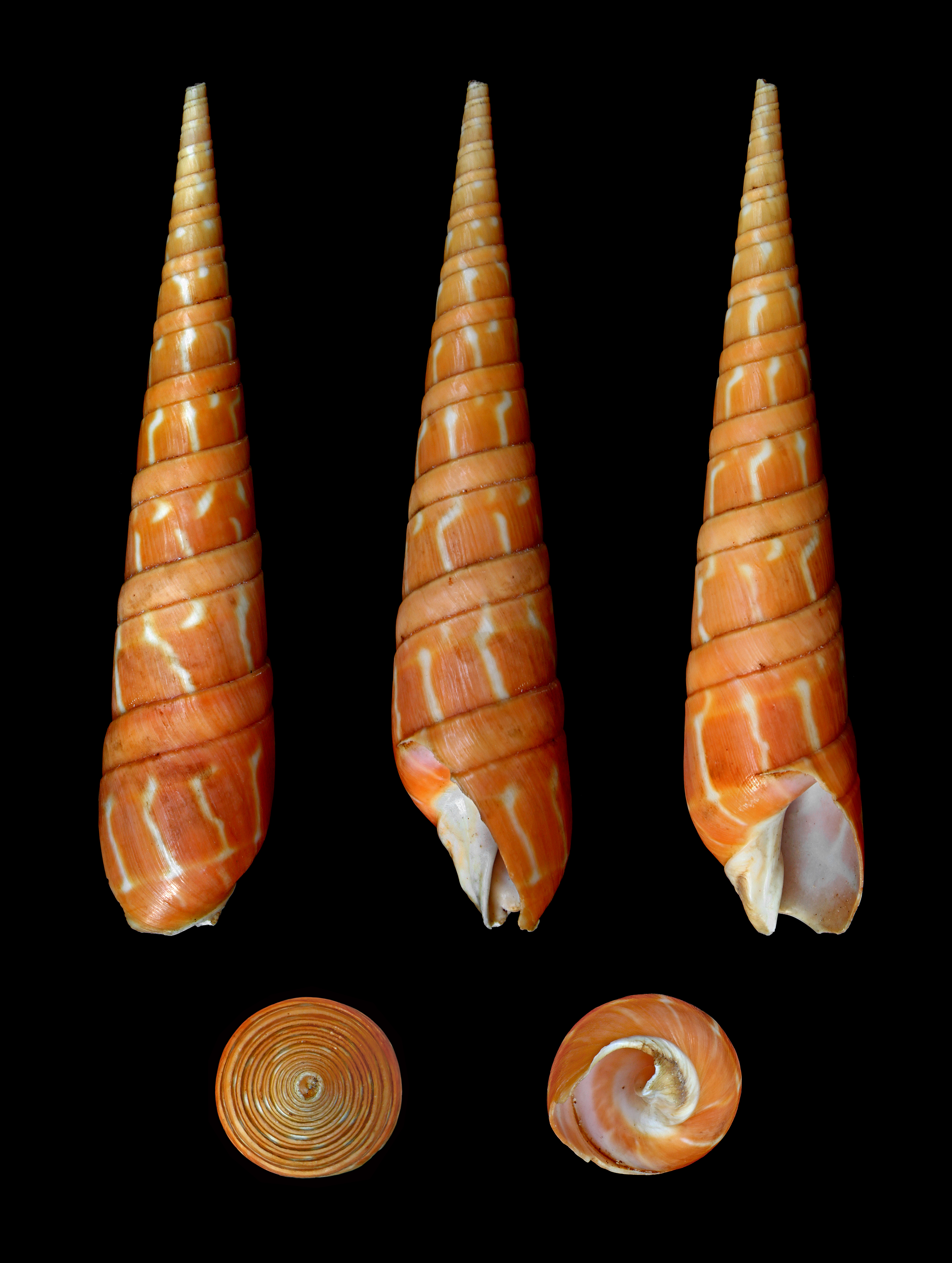 Orange Auger; Length 10 cm; Originating from the Indopacific; Shell of own collection, therefore not geocoded. Dorsal, lateral (right side), ventral, back, and front view.